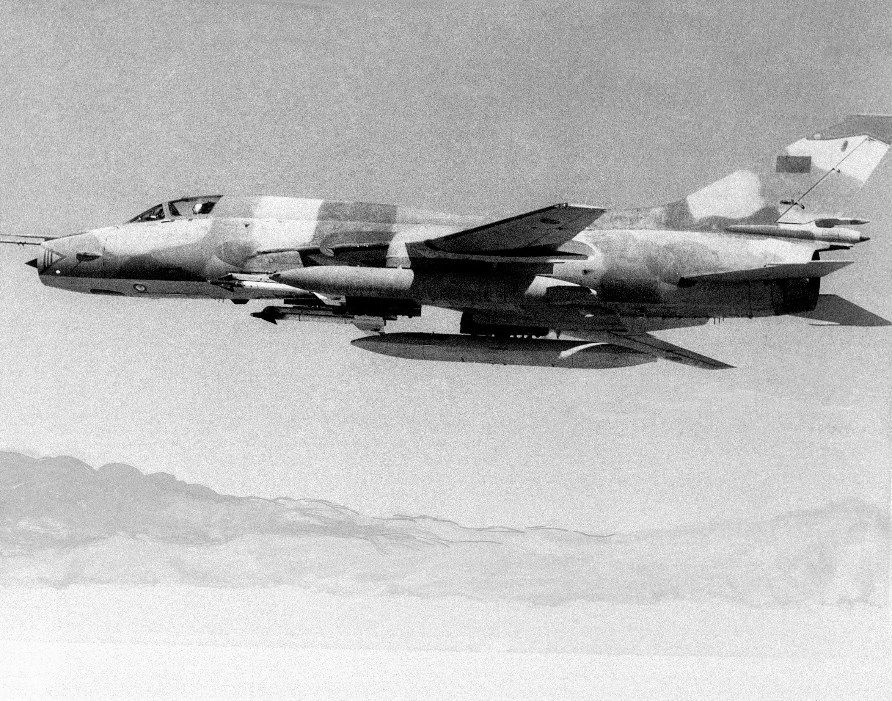 US Department of Defense: DA-SN-85-13043 An air to air right side view of a Libyan, Soviet-made Su-22M3 Fitter aircraft.